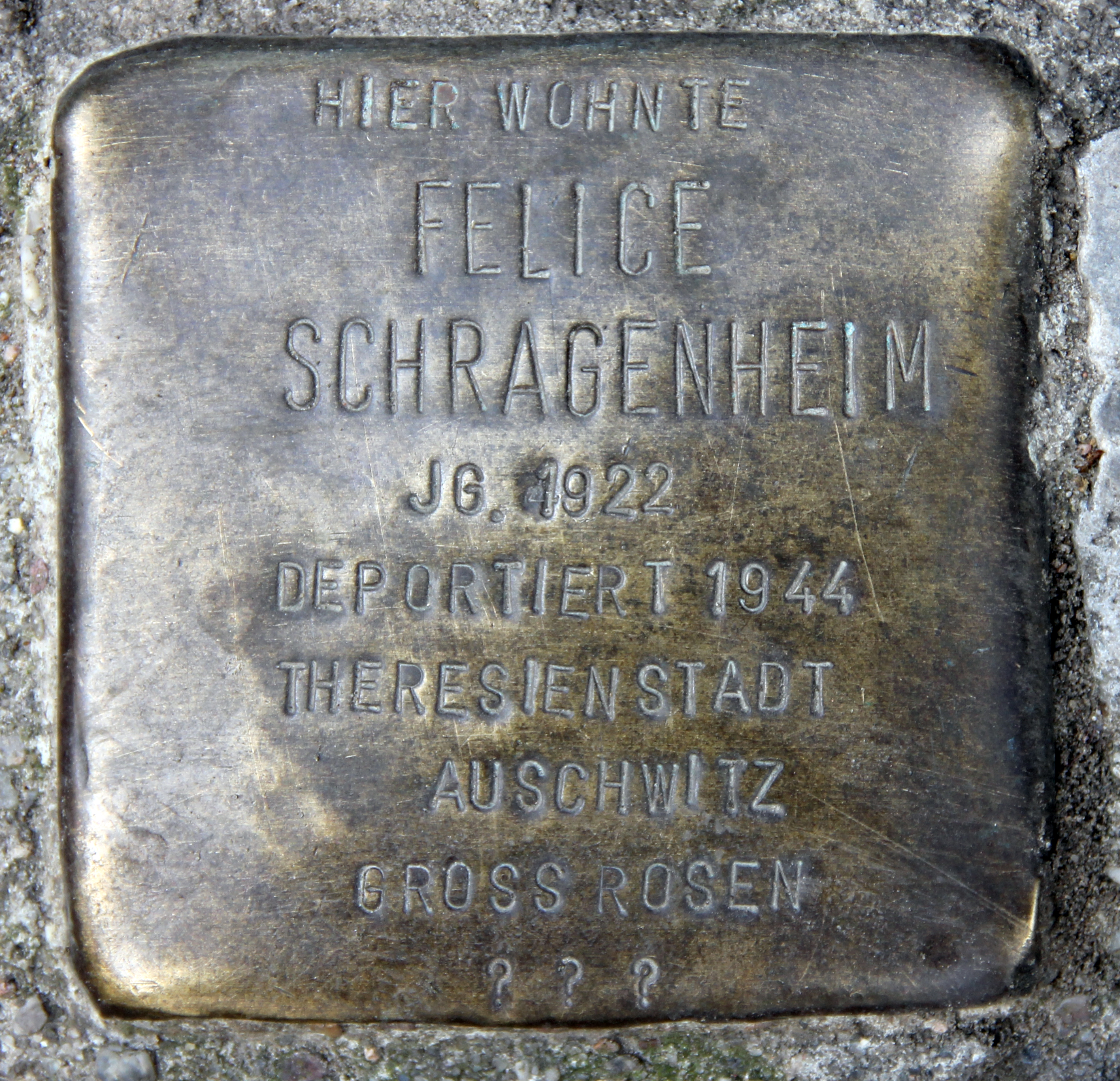 "Stolperstein" (stumbling block), Felice Schragenheim, Friedrichshaller Straße 23, Berlin-Schmargendorf, Germany